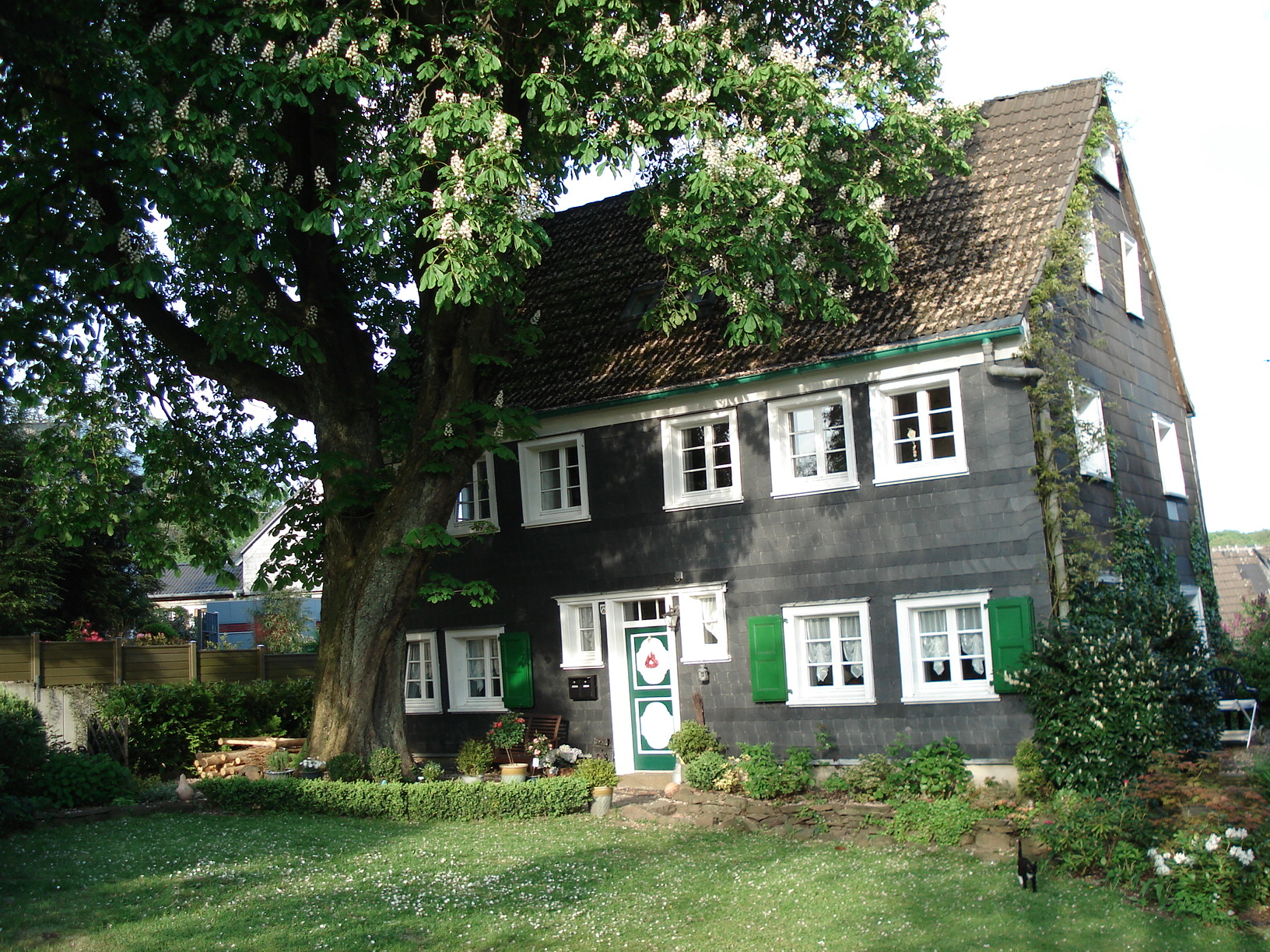 Picture of a very old house (build around 1720) in Ronsdorf (Wuppertal, Germany).